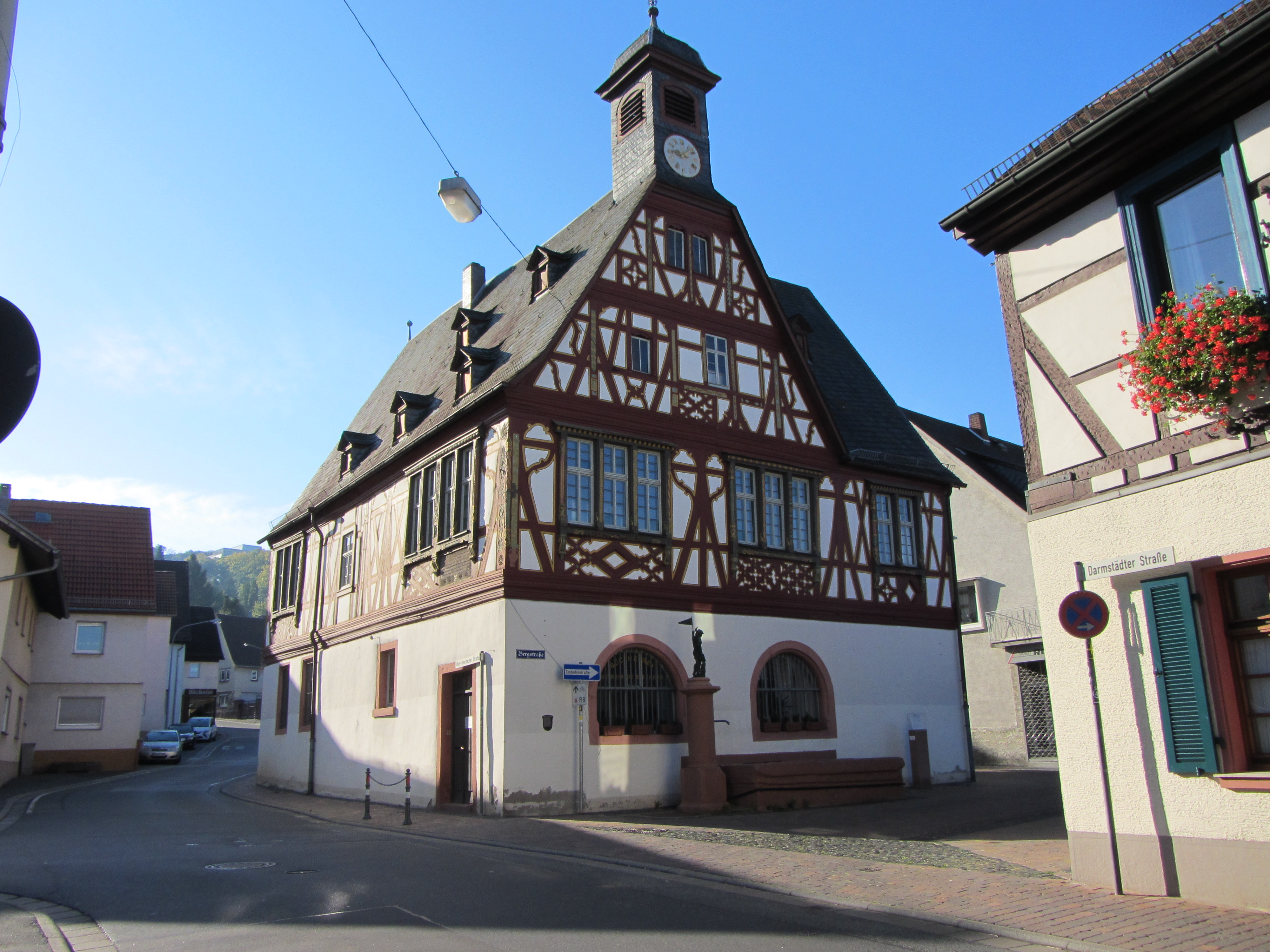 This is a photograph of an architectural monument.